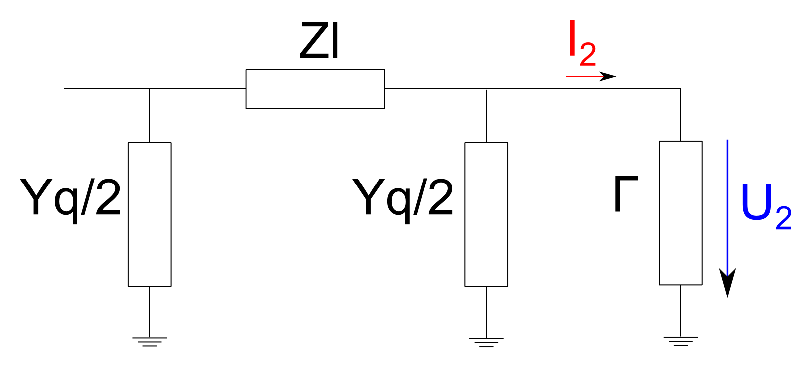 Ligne électrique connectée à une charge Gamma délivre sa puissance naturelle.